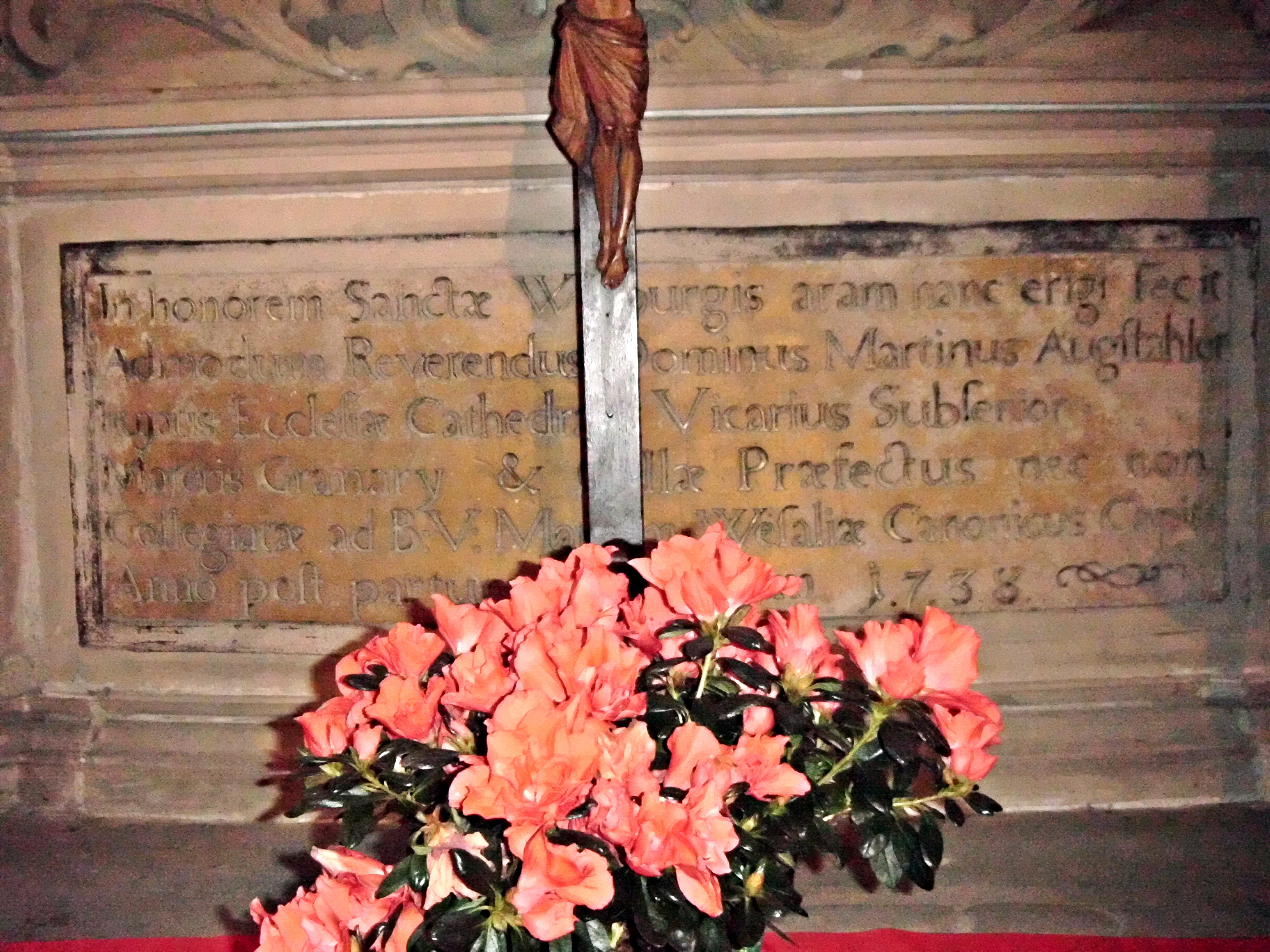 Walburgis Altar, Wormser Dom, 1738, gestiftet von Domvikar Martin Augsthaler (Inschrifttafel)